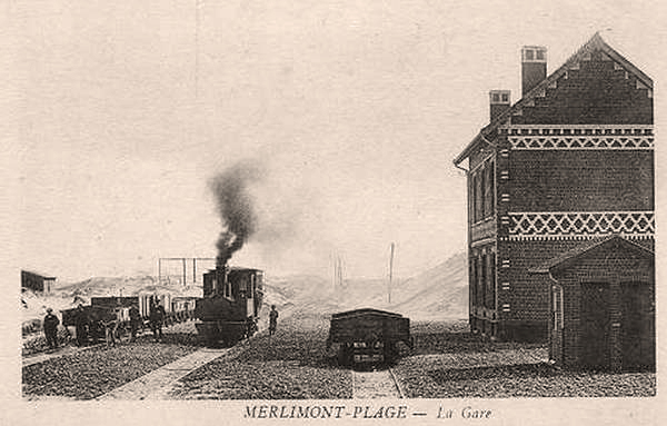 Trains at Merlimont-Plage station.